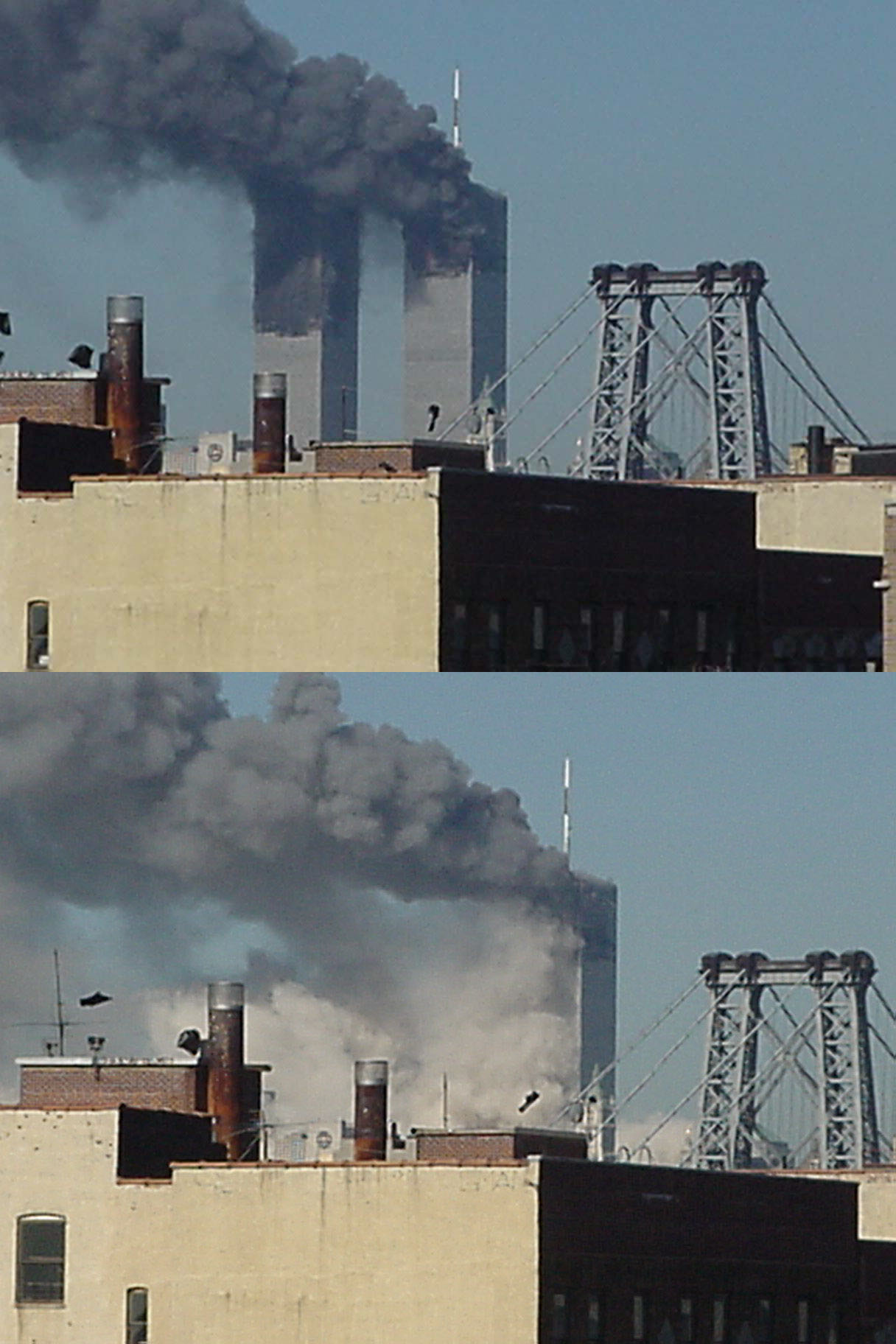 world trade center morning of 9-11-01 seen from rooftop in williamsburg brooklyn with williamsburg bridge in foreground taken by submitter